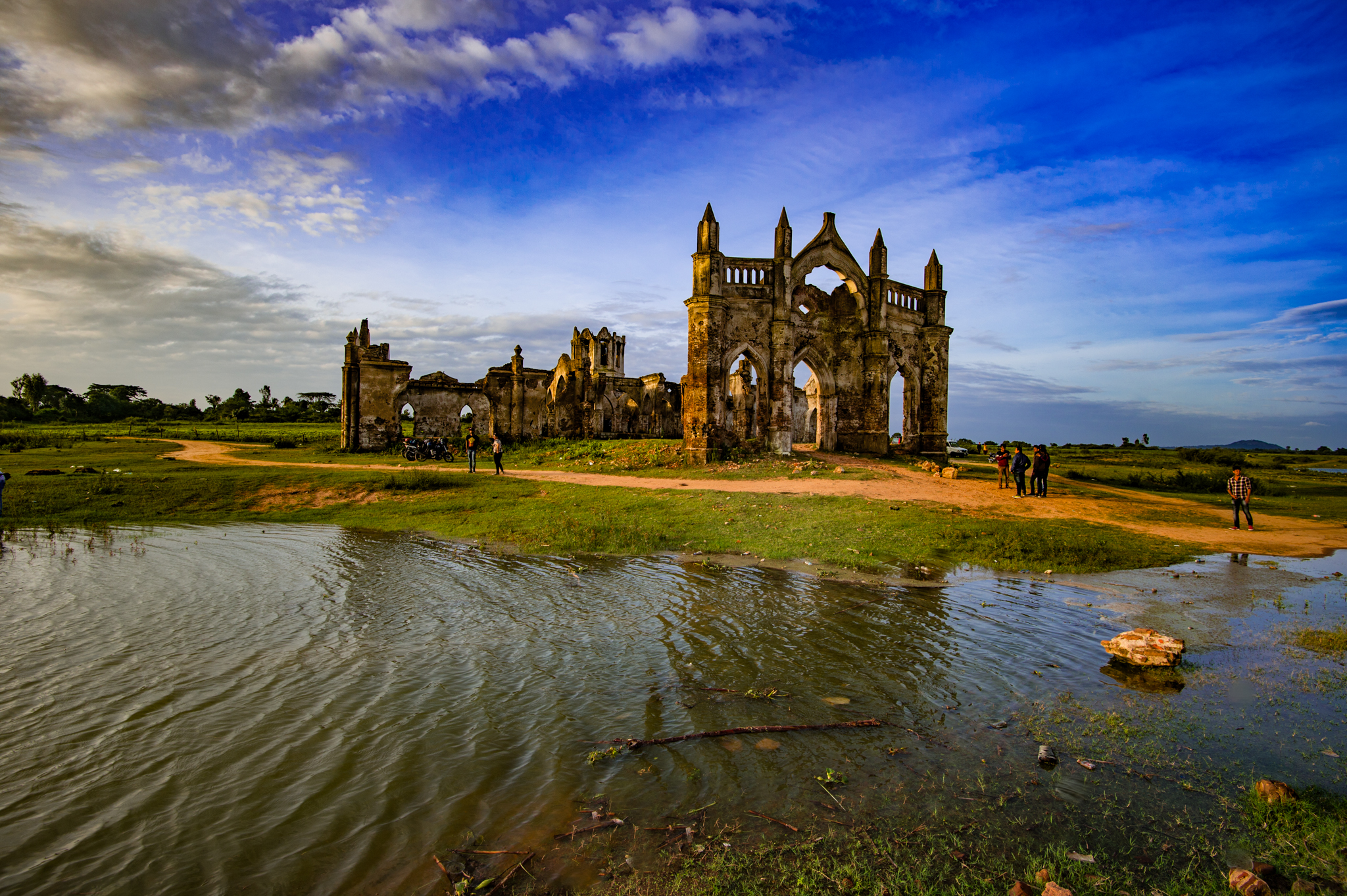 Shettihalli Church is located 22 km from Shettihalli, in Karnataka. Built in the 1860s by the French missionaries, the church is a magnificent structure of Gothic Architecture. After the construction of the Hemavati Dam and Reservoir in 1960 the church was abandoned.